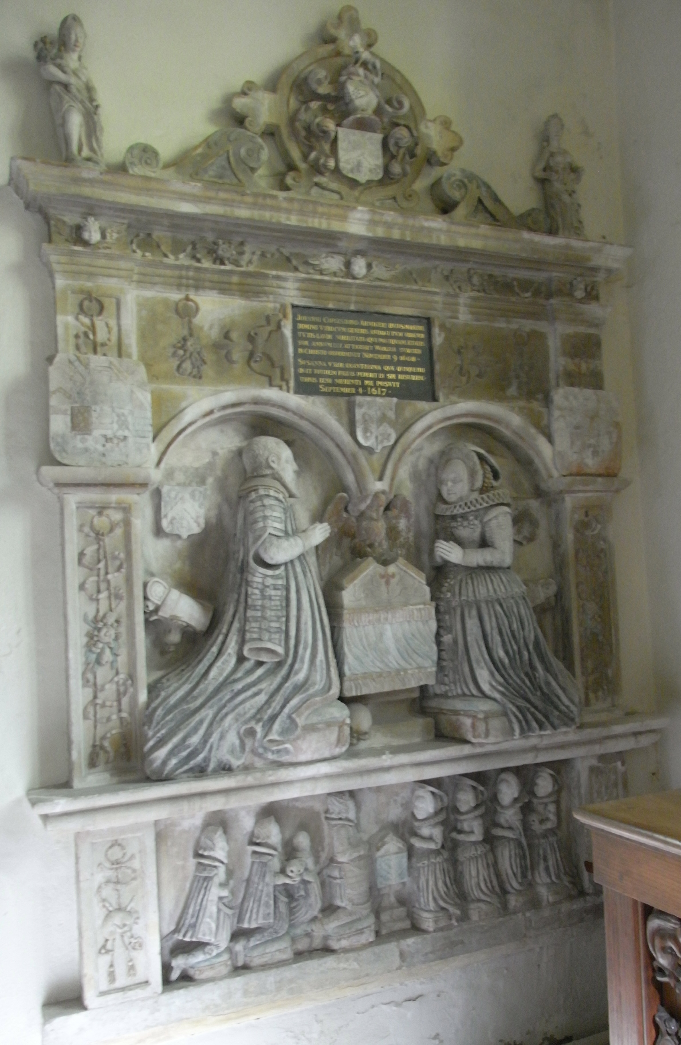 Monument to John Copleston, Esquire(d.1608) and his wife Susanna Pollard (d.post 1621)(Vivian, Lt.Col. J.L., (Ed.) The Visitation of the County of Devon: Comprising the Heralds' Visitations of 1531, 1564 & 1620, Exeter, 1895, p.225); St. Mary's Church, Tamerton Foliot, Devon. Latin inscription: Johanni Coplestono Armigero huius manerie domino viro cum generis antiqui tum verae virtutis laude nobilitato: qui postquam aetatis suae annum LIX attigisset Warleiae suaviter in Christo obdormirvit, November 9 1608. Susanna uxor amantissima quae quinque filios et totidem filias peperit in spe resurrectionis bene merenti pie posuit, September 4, 1617. In